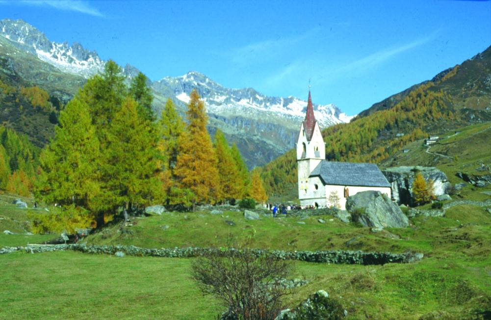 Church of the Holy Spirit, Ahrntal valley in the South Tyrol.